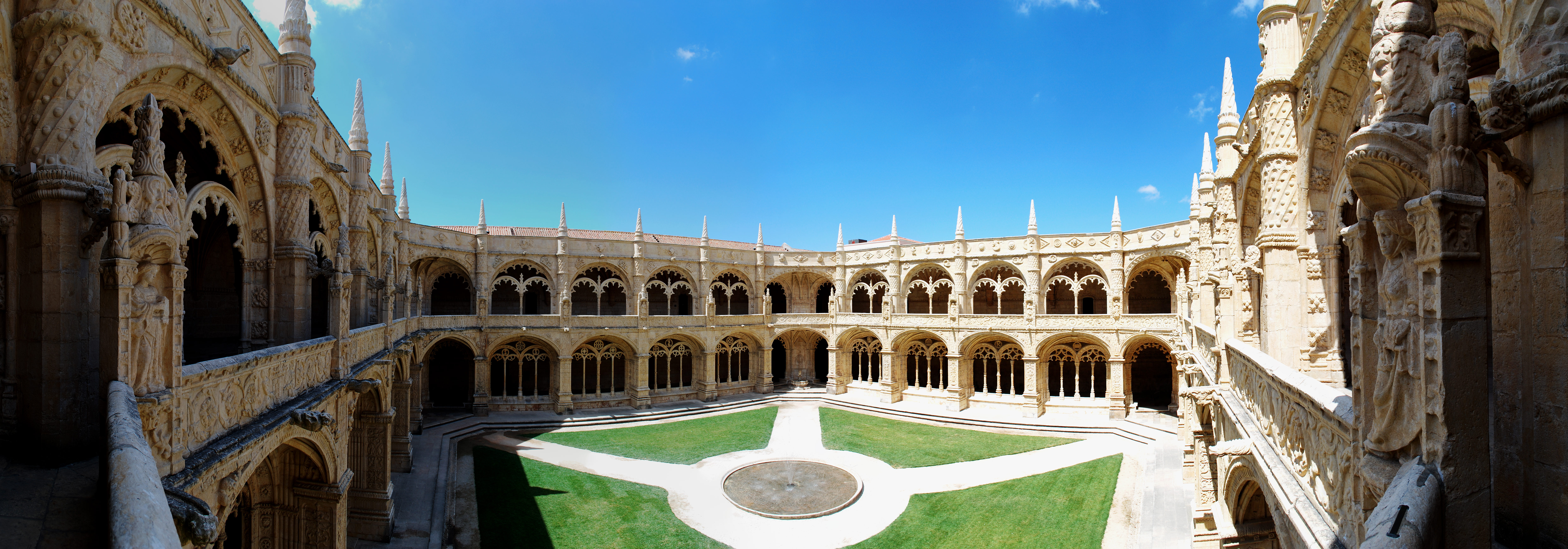 Mosteiro dos Jerónimos in Lisboa, cloister and courtyard